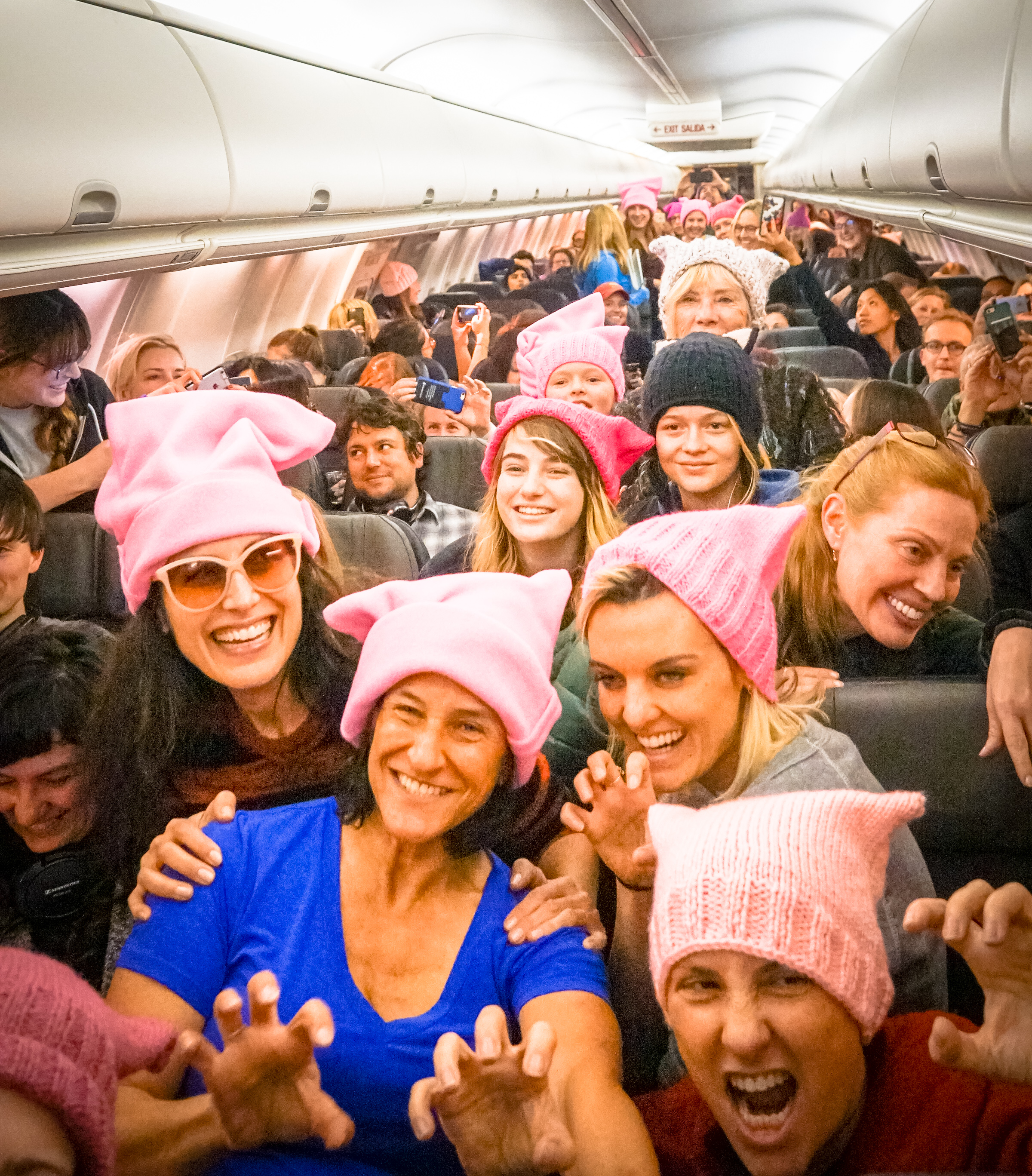 I love America - the place where people come together around a common cause and have some fun at the same time, all on their way to the best city in the world - Washington, DC USA :).